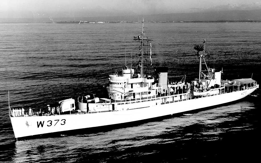 United States Coast Guard cutter USCGC Matagorda (WAVP-373)